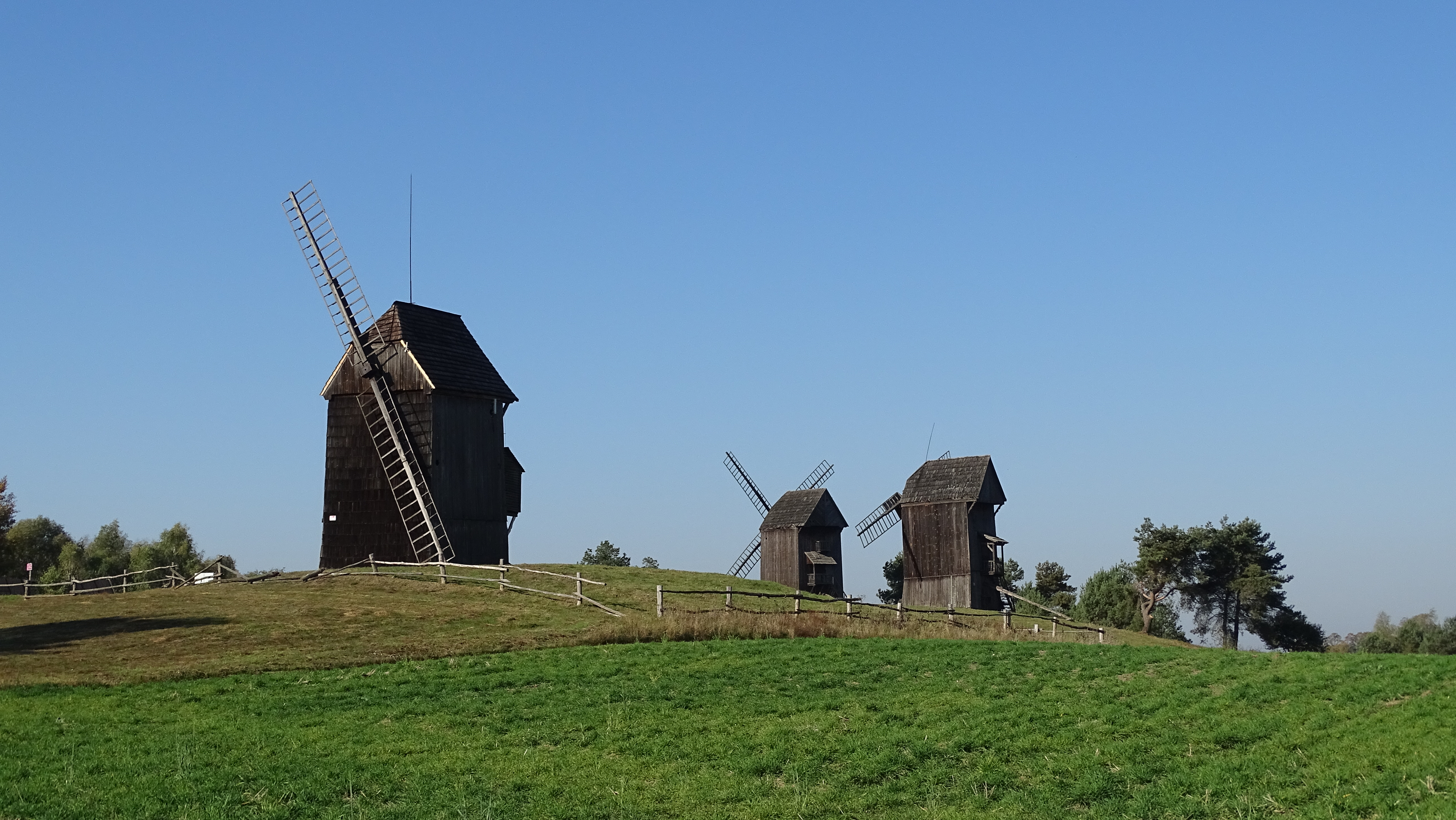 Lednogóra, Gmina Łubowo, Poland. A group of windmills from the 19th century. Moved to this place from other locations in the 70s of 20th century.